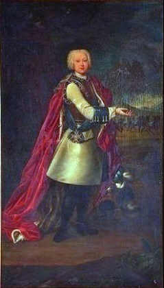 (1) Portrait of Frederick IV Christian of Saxony (1722-1763), prince elector of Saxony in 1763 (2 months). Son of King August III of Poland, i.e. of prince elect Frederick II August of Saxony and of Maria Josepha of Austria.